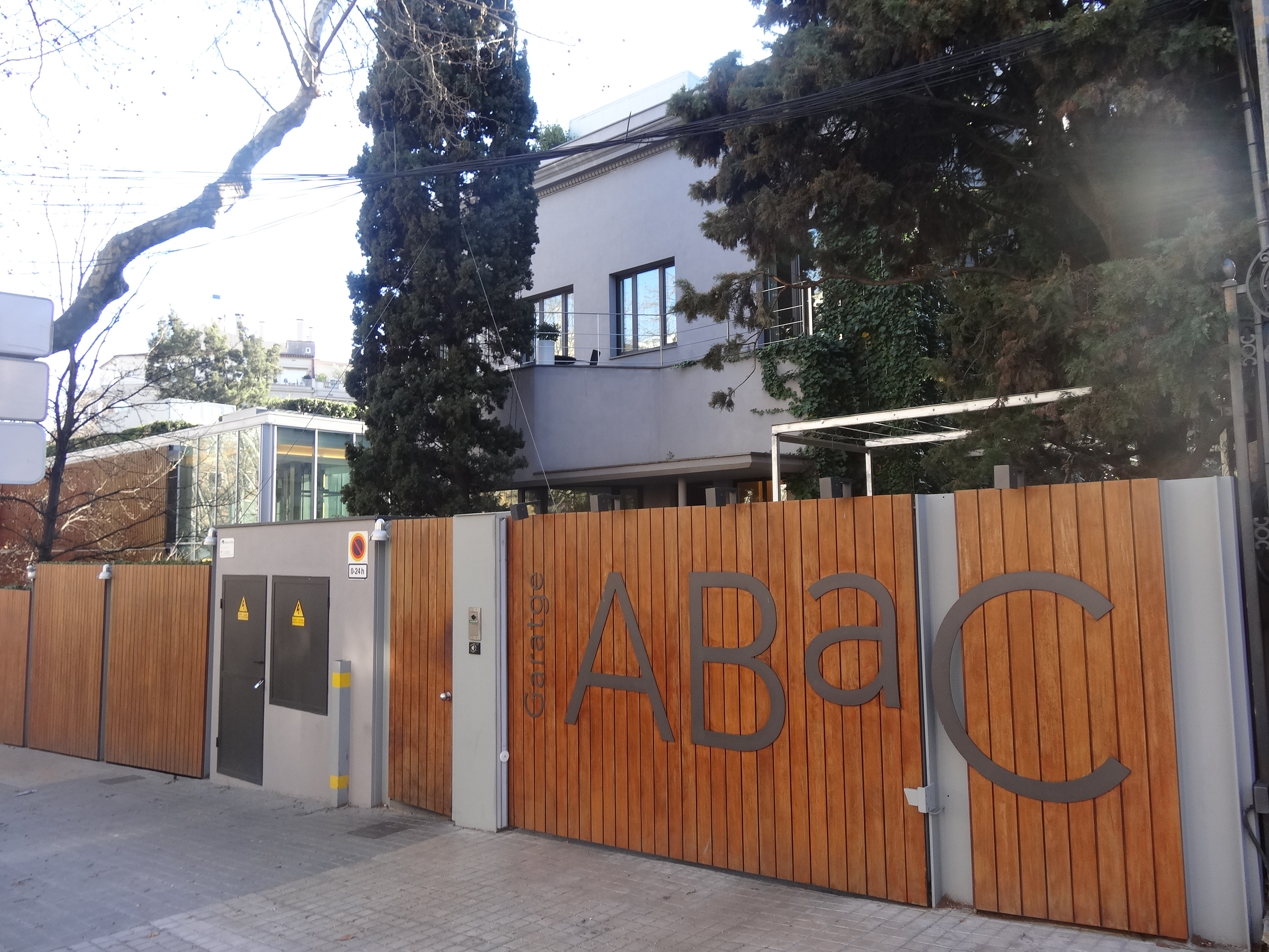 ABaC Restaurant and Hotel - Av Tibidabo 1 Barcelona